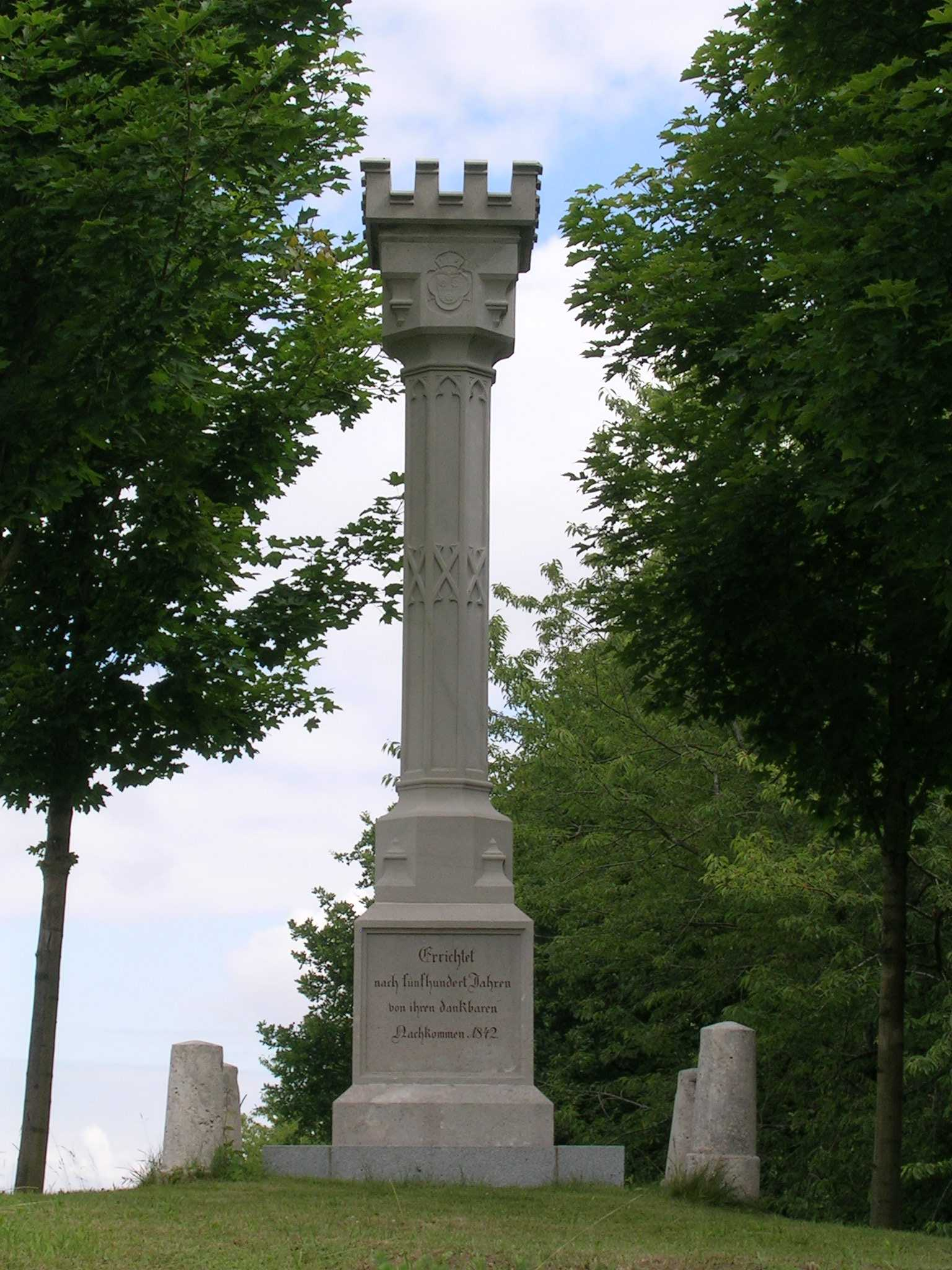 Monument in remembrance of the battle of Gammelsdorf 1313